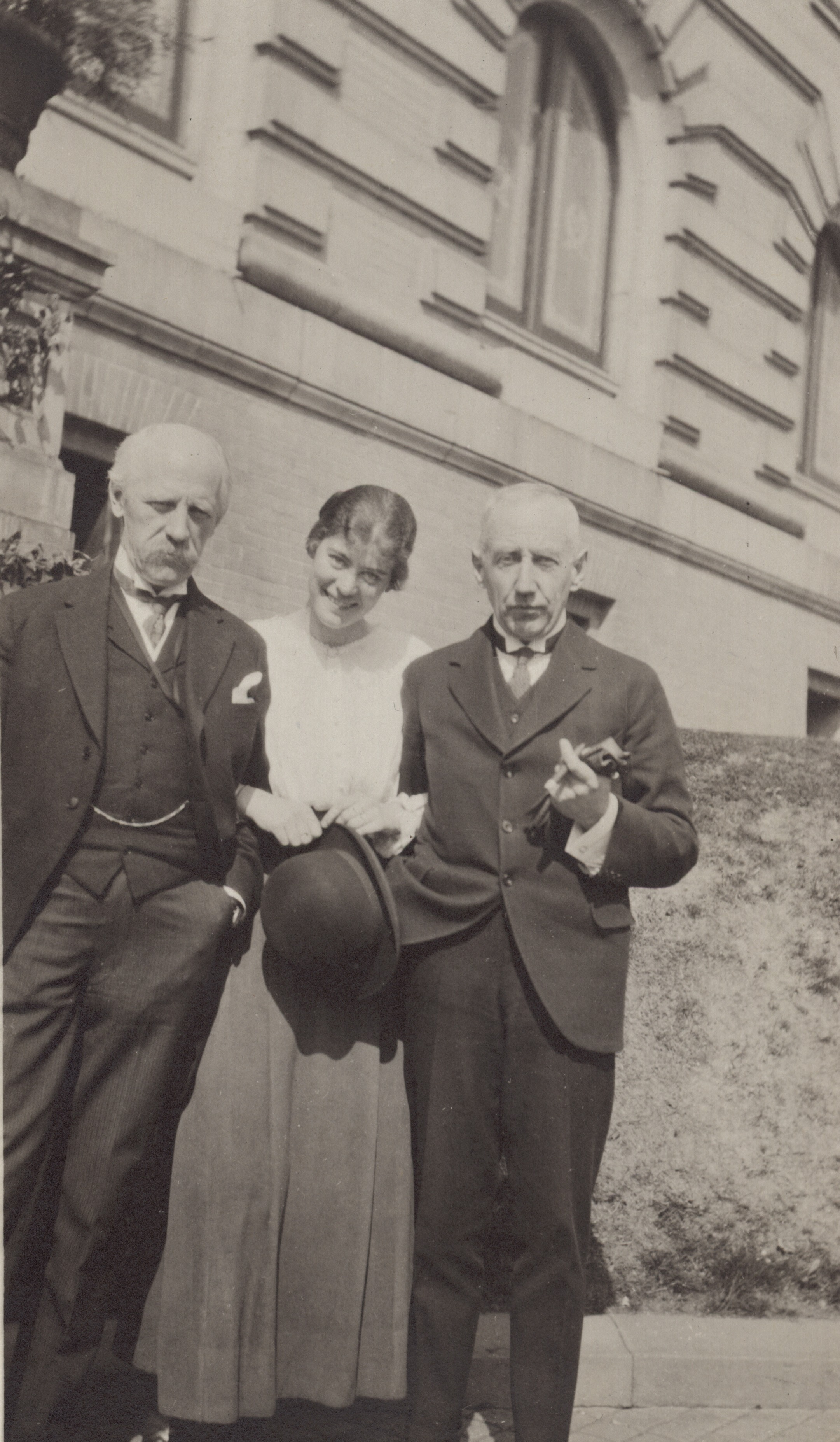 From the left, Fridtjof Nansen, his daughter Liv Nansen Høyer and Roald Amundsen outside of the hotel «The Highlands», after the War Trade Board gave the first license to the «Maud» expedition.